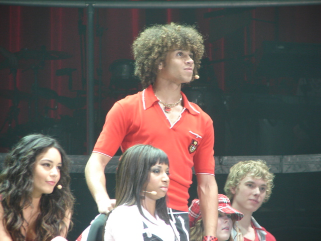 Corbin Bleu and Vanessa Hudgens and Monique Coleman In High School Musical Live Concert Tour, 2006